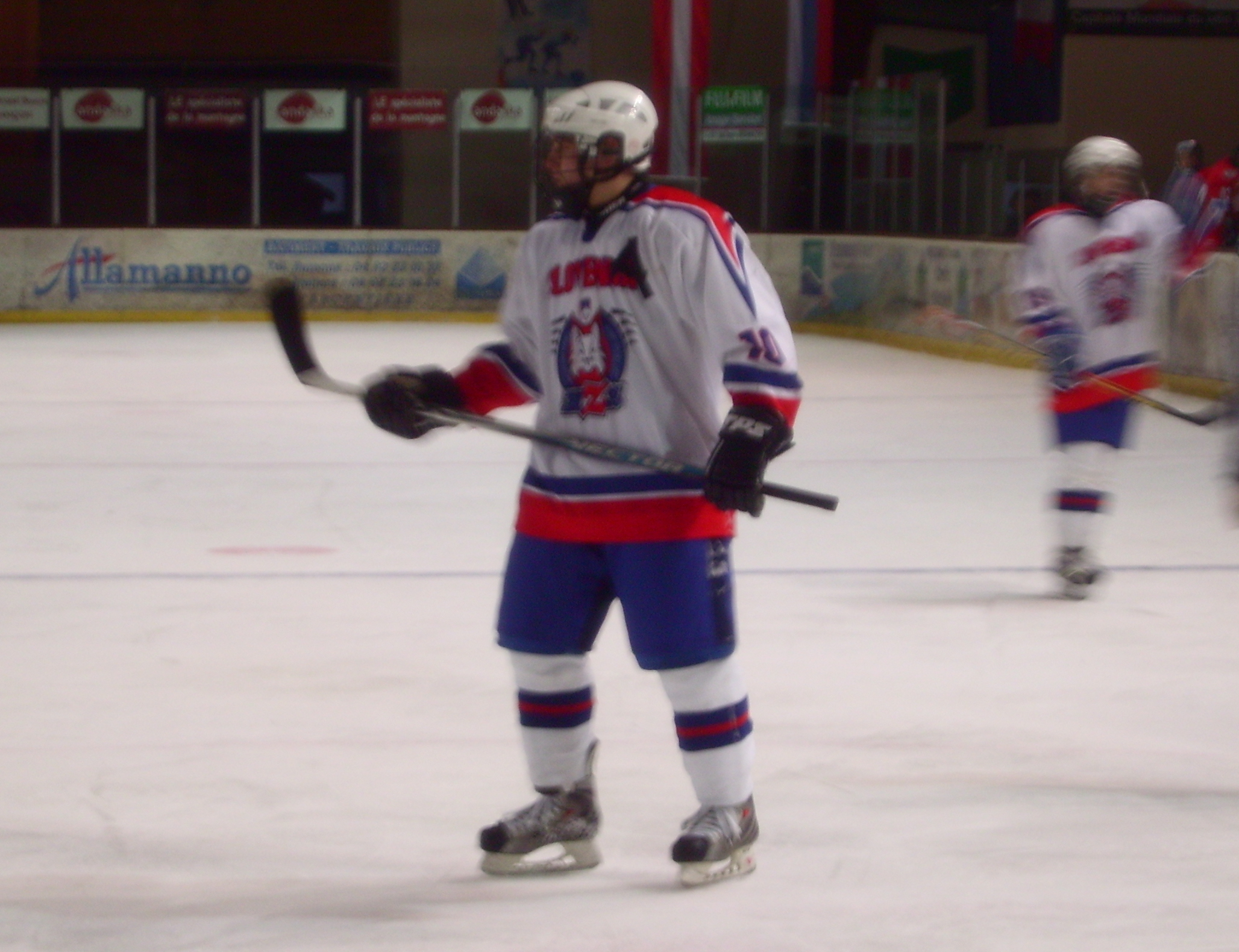 Anže Kuralt, slovenian ice hockey player. Friendly game: team Slovenia U18 Vs Austria U18 in Briançon, France. 2009